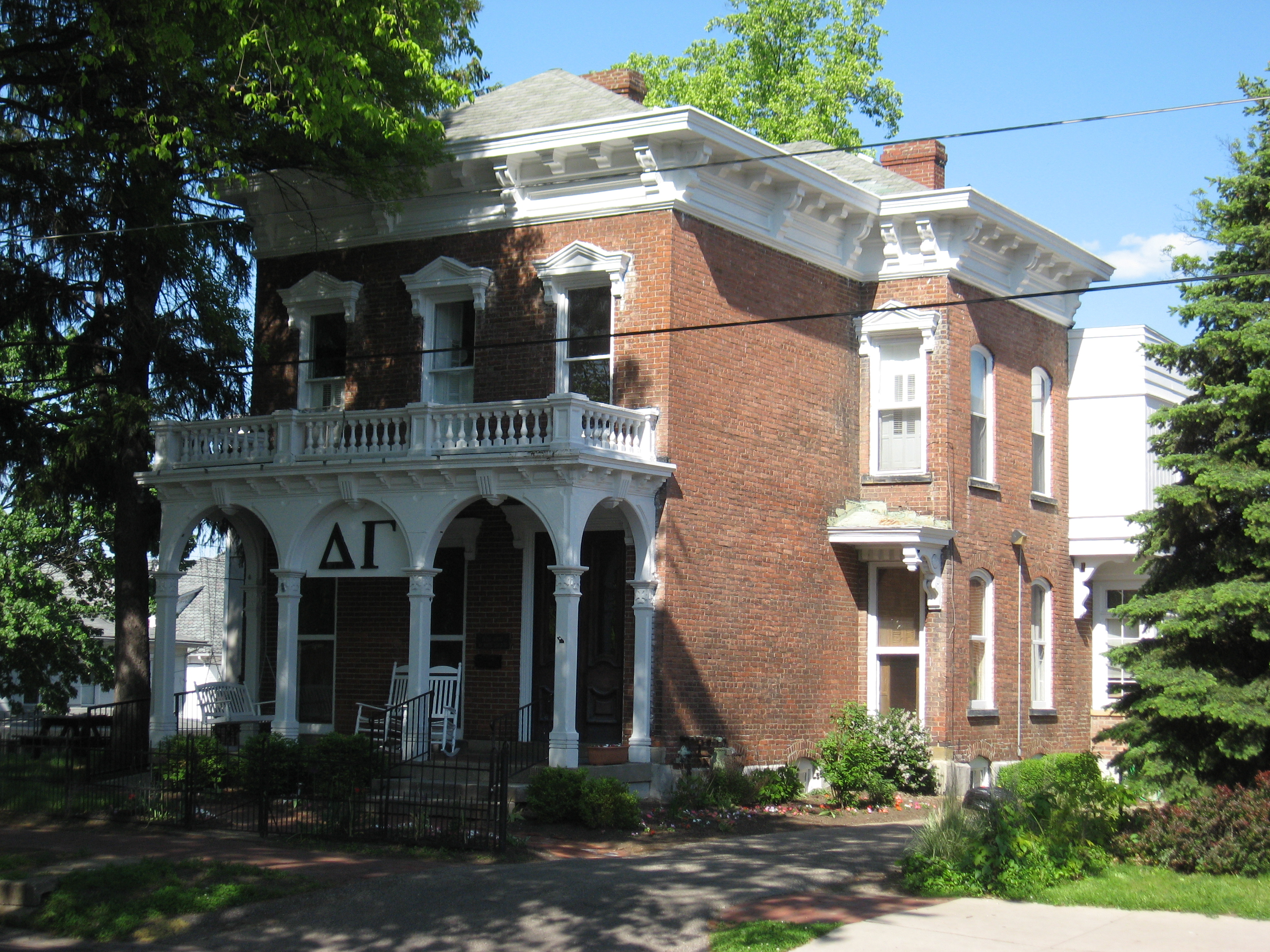 Delta Gamma Sorority House at Ohio University(Athens, USA)